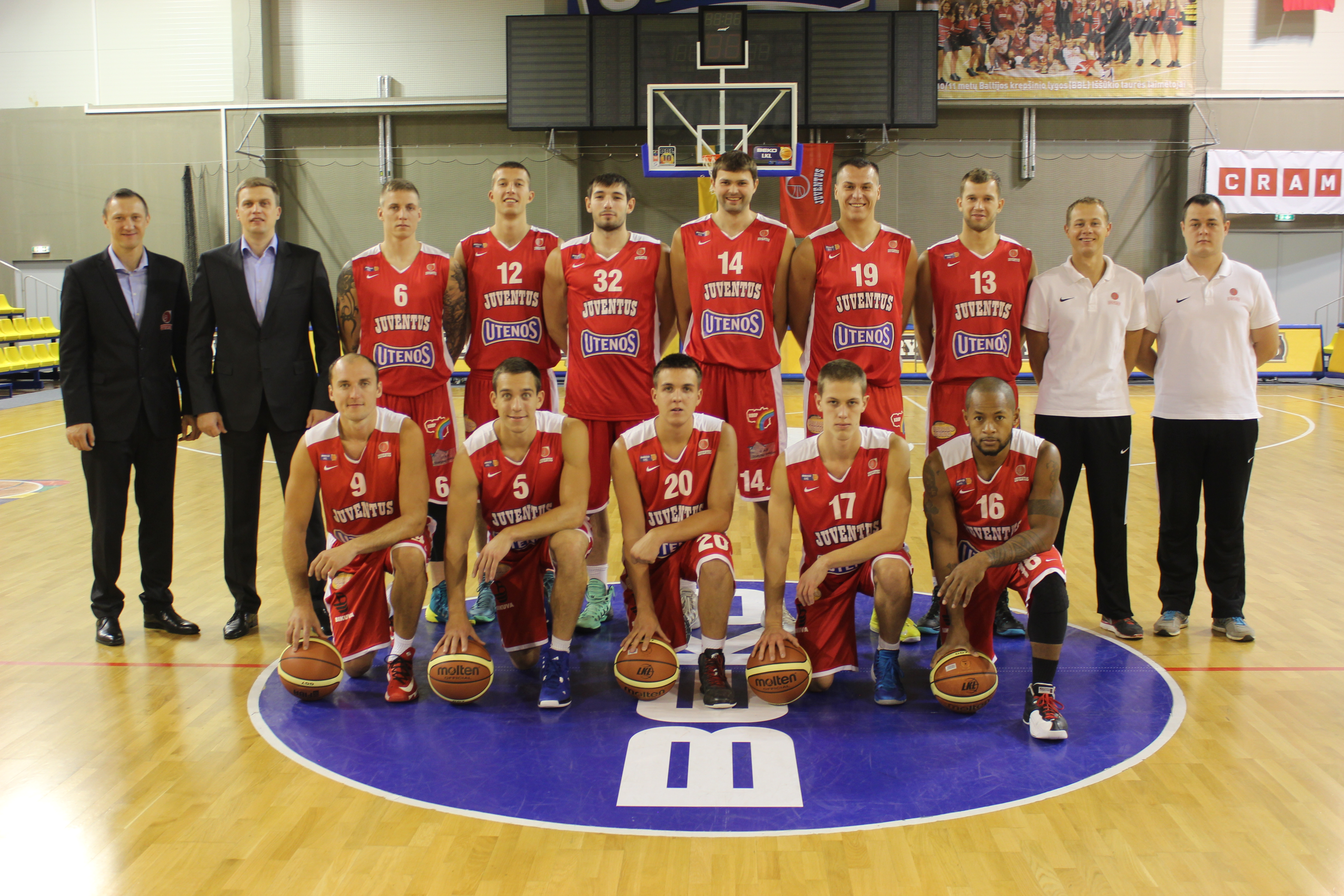 Team photo of the BC Juventus, prior the 2014-2015 season.